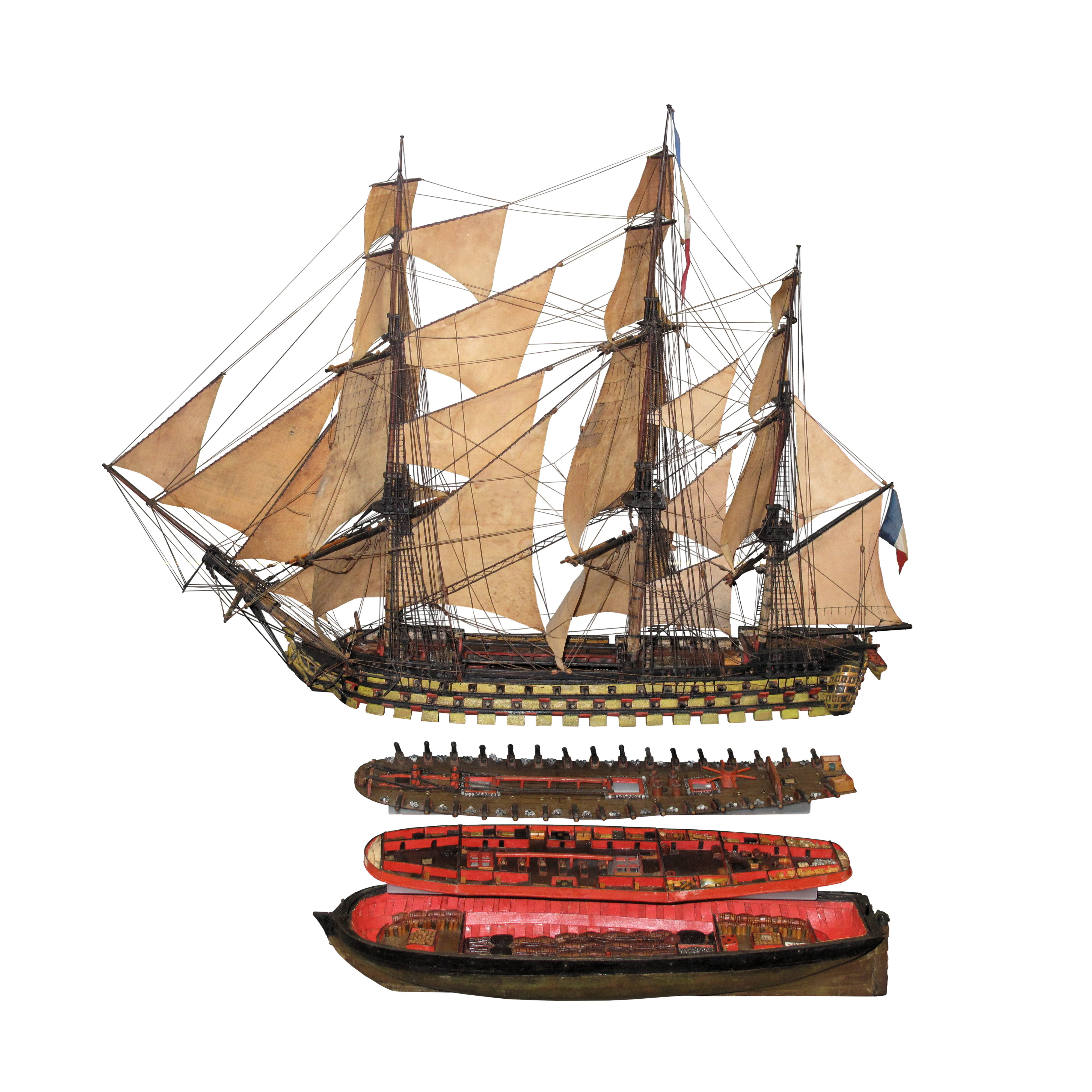 Can be dismantled and show and inner arrangement of the ship